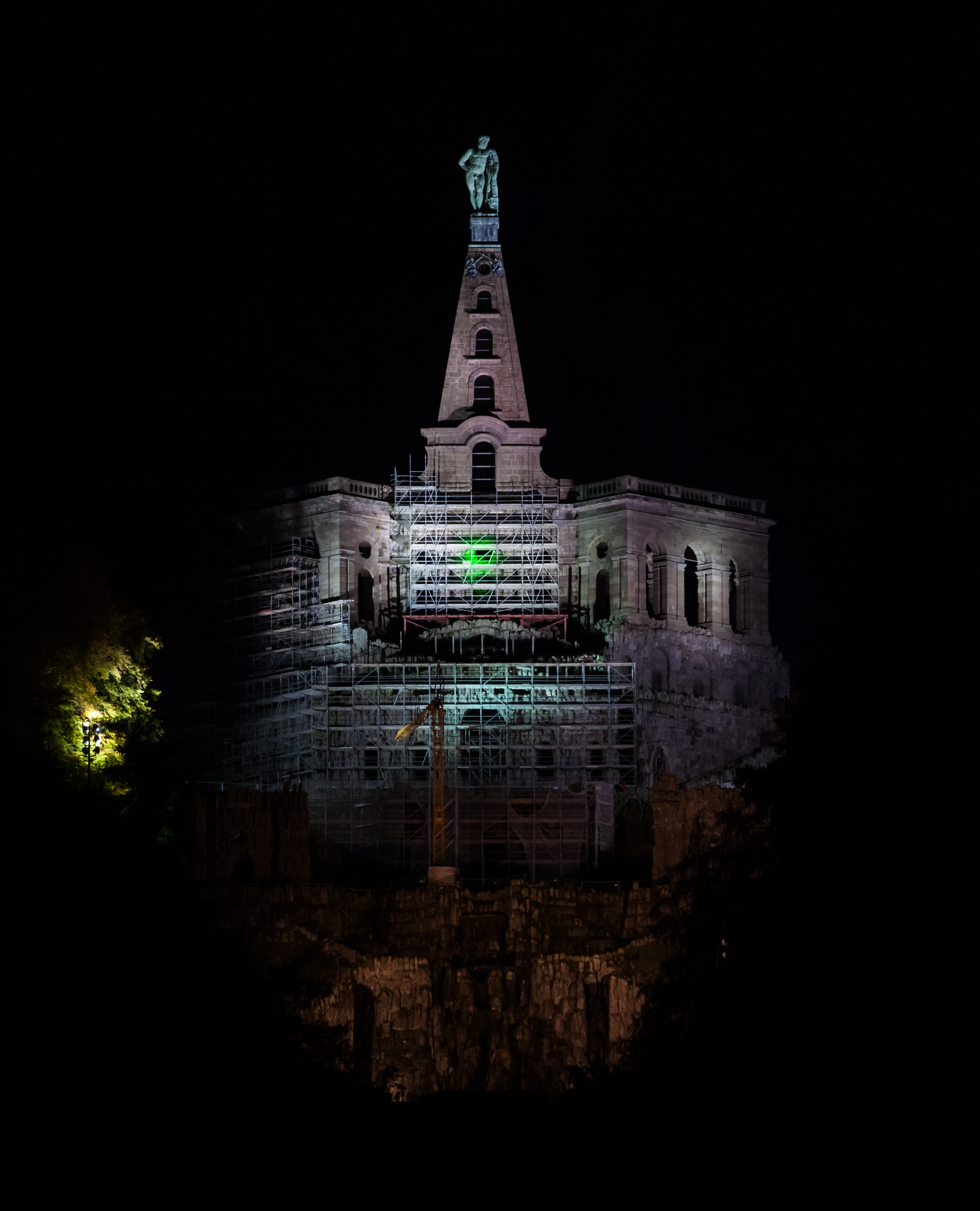 Monument to Hercules, Kassel, Germany